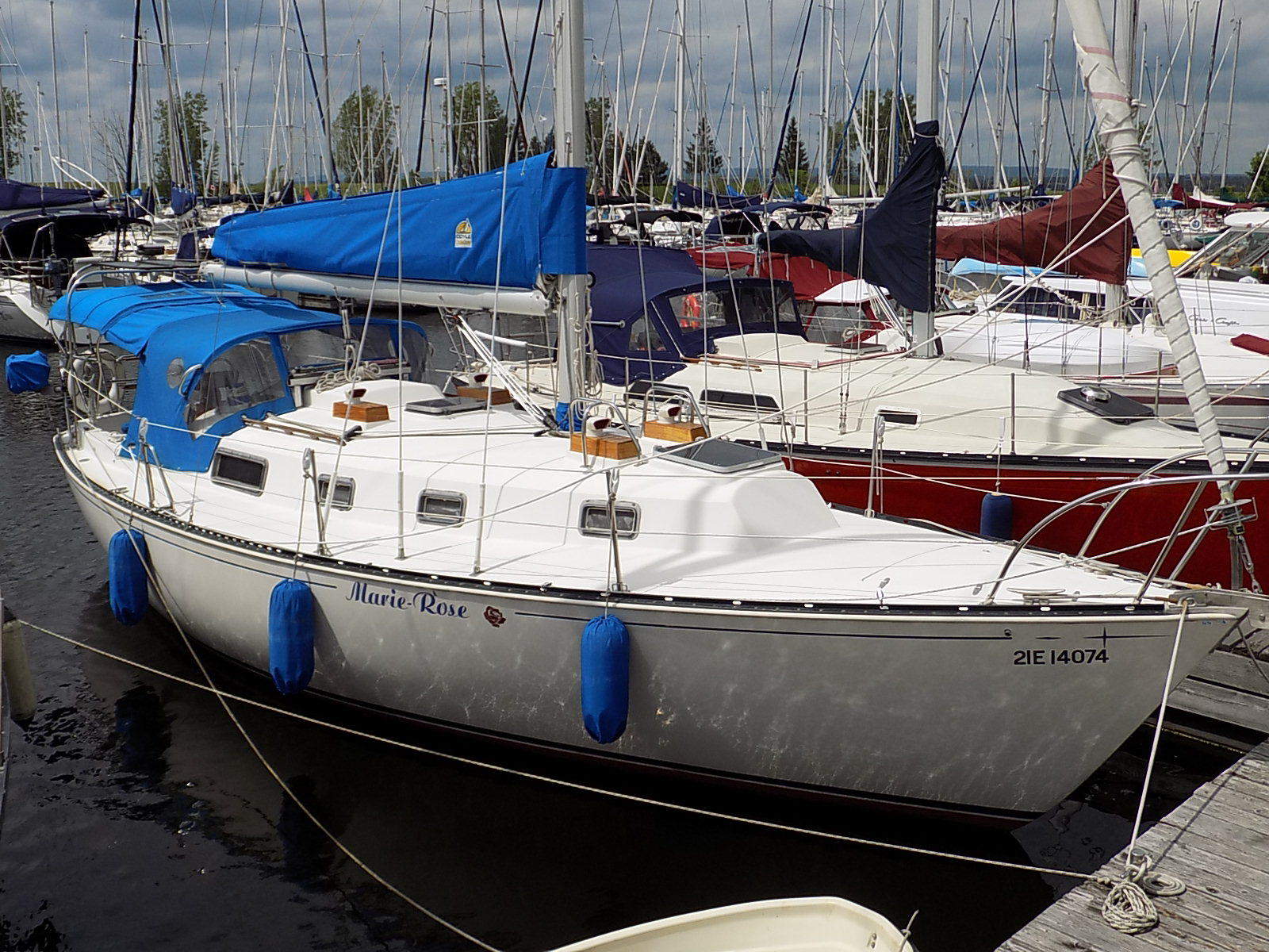 An Ontario 32 sailboat named Marie Rose.